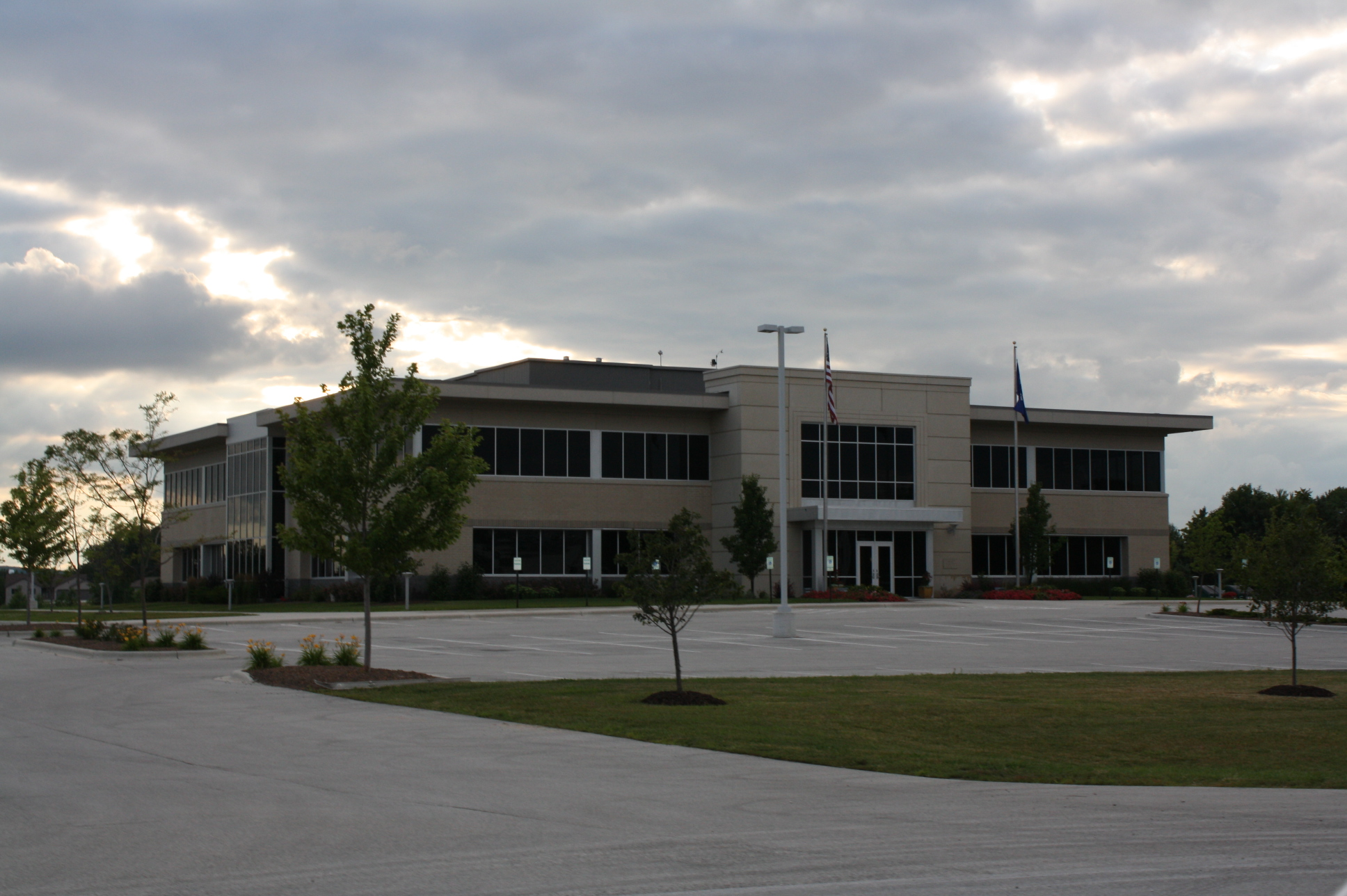 The corporate headquarters for Johnsonville Foods in Johnsonville, Wisconsin in rural Sheboygan County, Wisconsin.